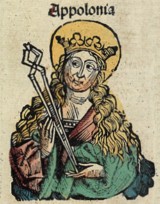 This is a part of a scan of an historical document: Title: Schedelsche Weltchronik or Nuremberg Chronicle